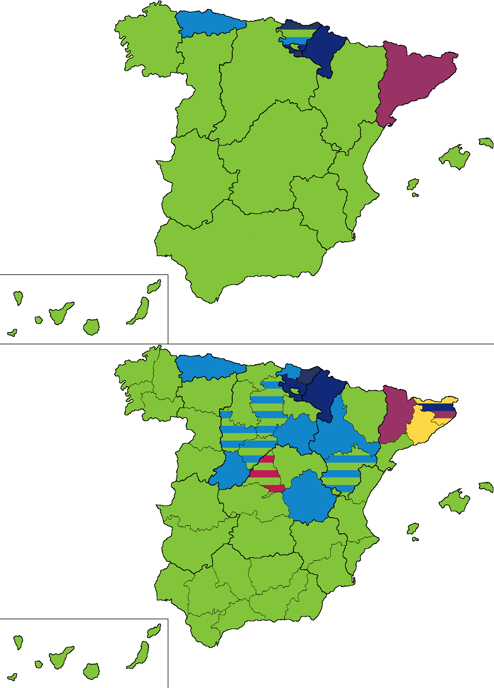 Most voted party in the 1910 Spanish Congress of Deputies election by regions and provinces.